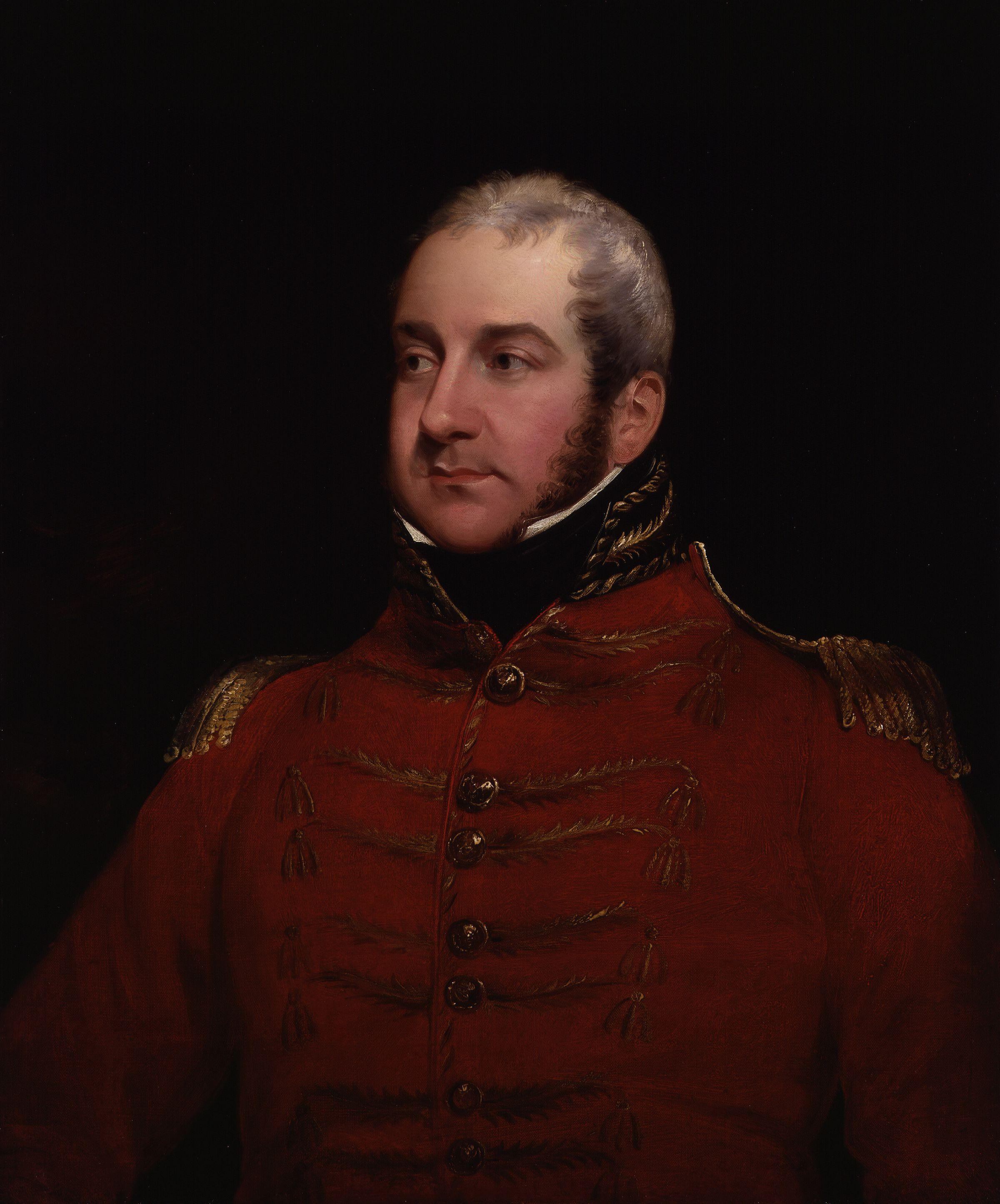 All images in this batch have been confirmed as author died before 1939 according to the official death date listed by the NPG.